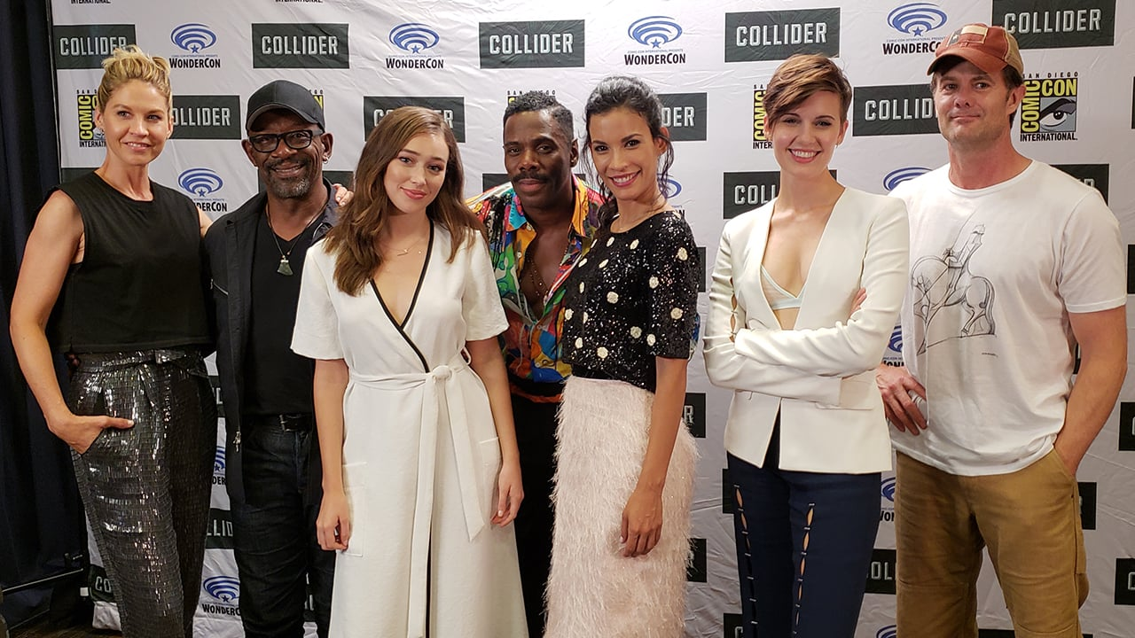 'Fear the Walking Dead' Cast Tease Upcoming Storylines and Answer Some Fun Questions. #Colman Domingo, #Alycia Debnam-Carey, #Lennie James, #Danay Garcia, #Garret Dillahunt, #Maggie Grace, #Jenna Elfman, #Video Interview, #Fear the Walking Dead, #Comic-Con, #Comic-Con 2018, #San Diego Comic-Con.